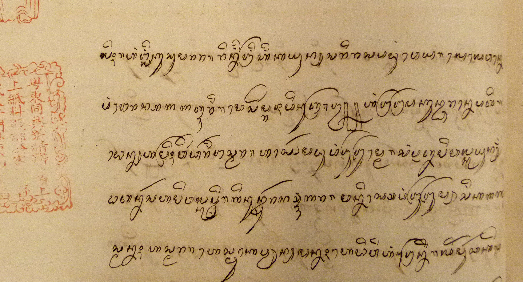 Seals of a Chinese supplier of paper, in a Javanese manuscript of Panji Angreni. British Library, MSS Jav 17, f.10v.